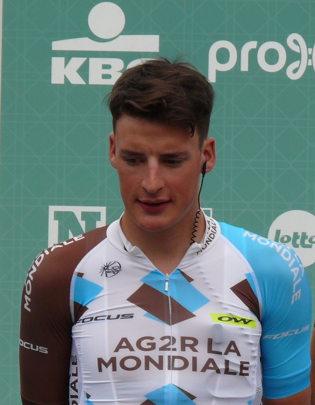 Brussels Cycling Classic 2016, 3.9.2016, Brussels, Parc du Cinquantenaire, presentation of the teams before the start, team AG2R La Mondiale, Étienne Fabre